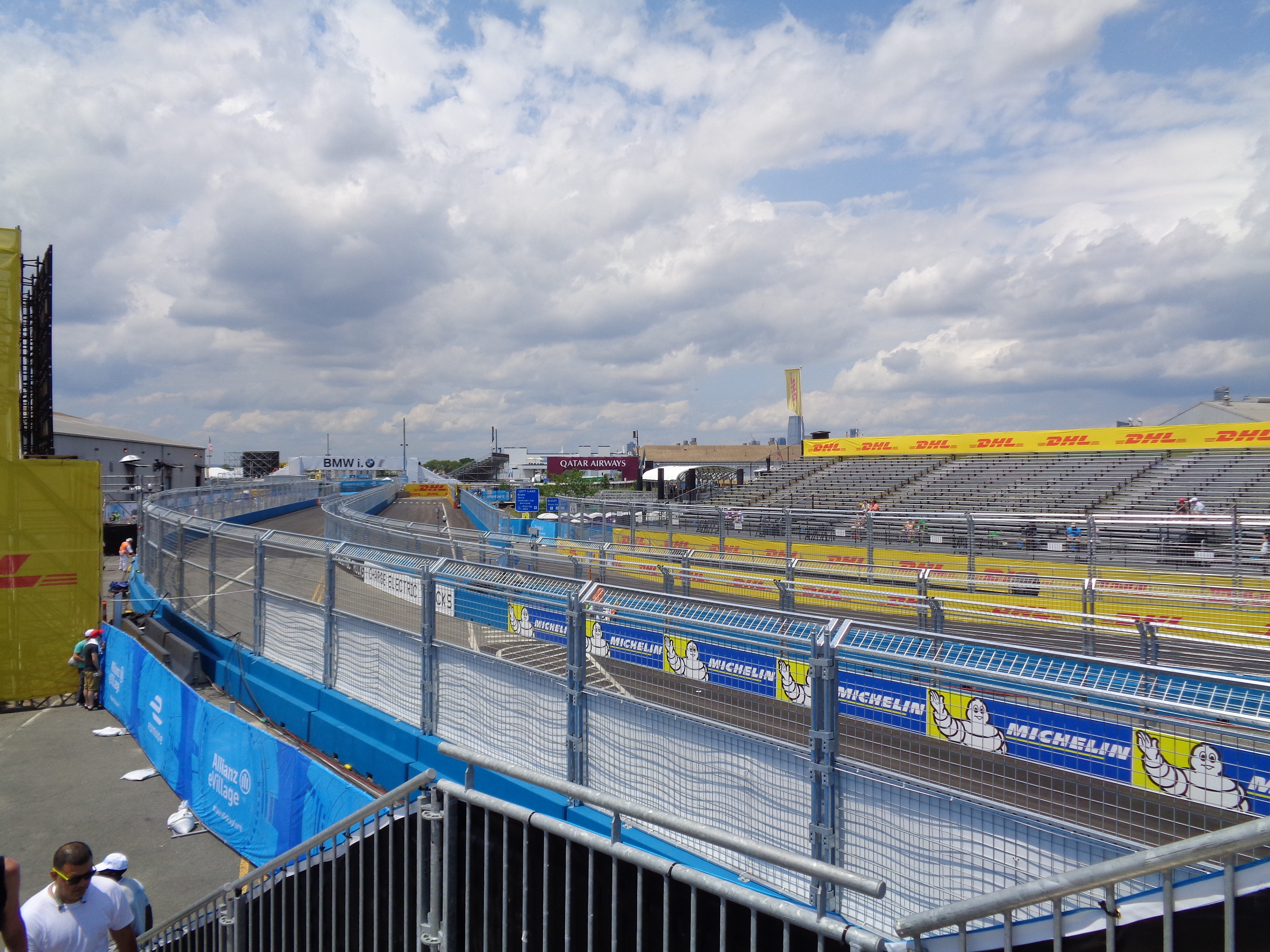 The first race of the 2017 New York City ePrix in Red Hook, Brooklyn, on Saturday, July 15, 2017.